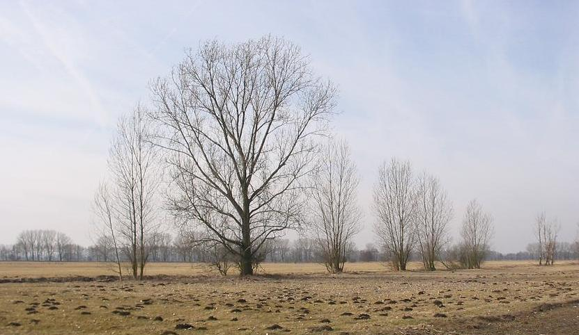 Belziger Landschaftswiesen („territory grassland near the town Belzig“) in Brandenburg, scenery nearby Freienthal